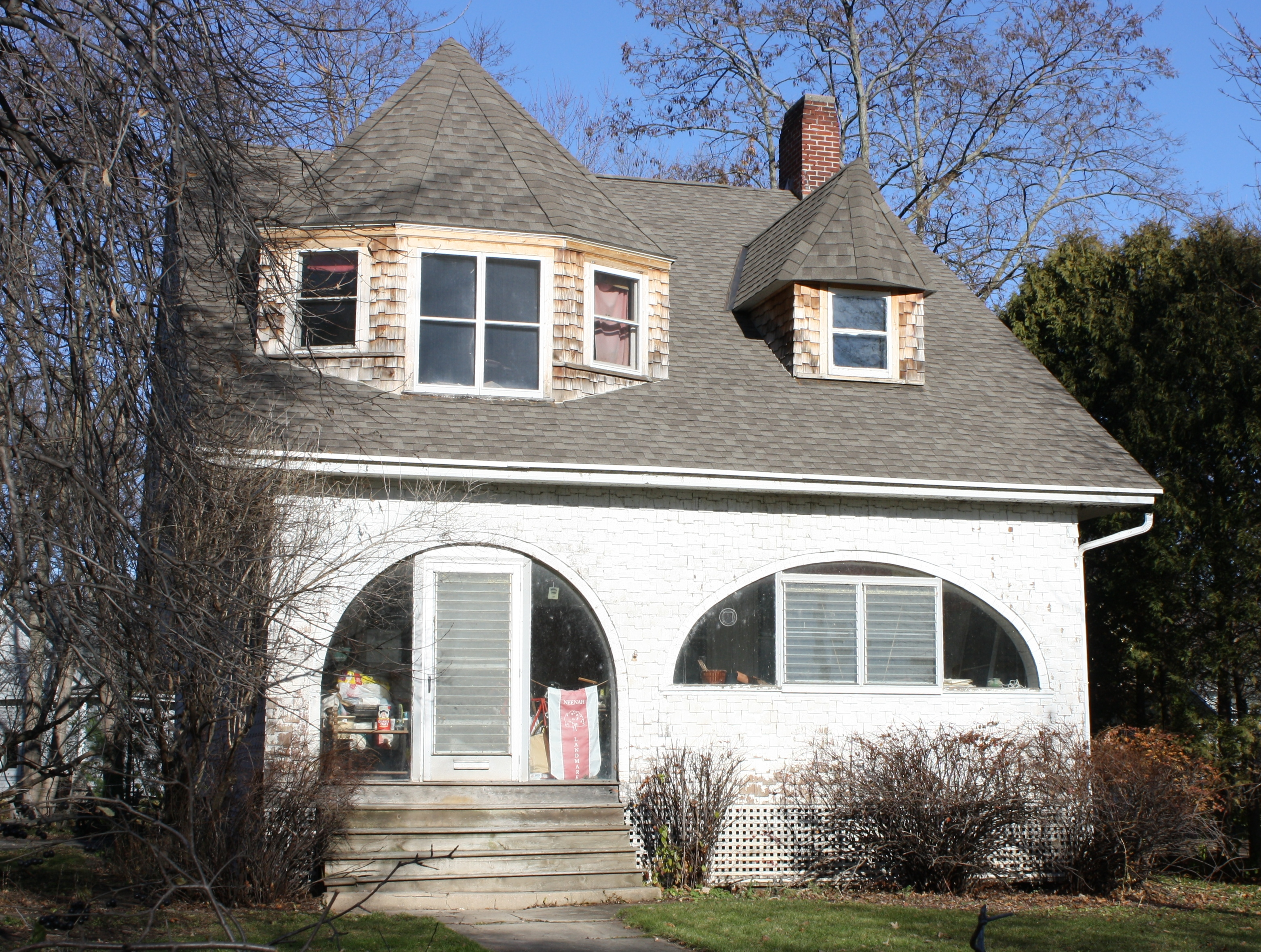 The Perry Lindsley House in Neenah, Wisconsin, listed on the National Register of Historic Places.